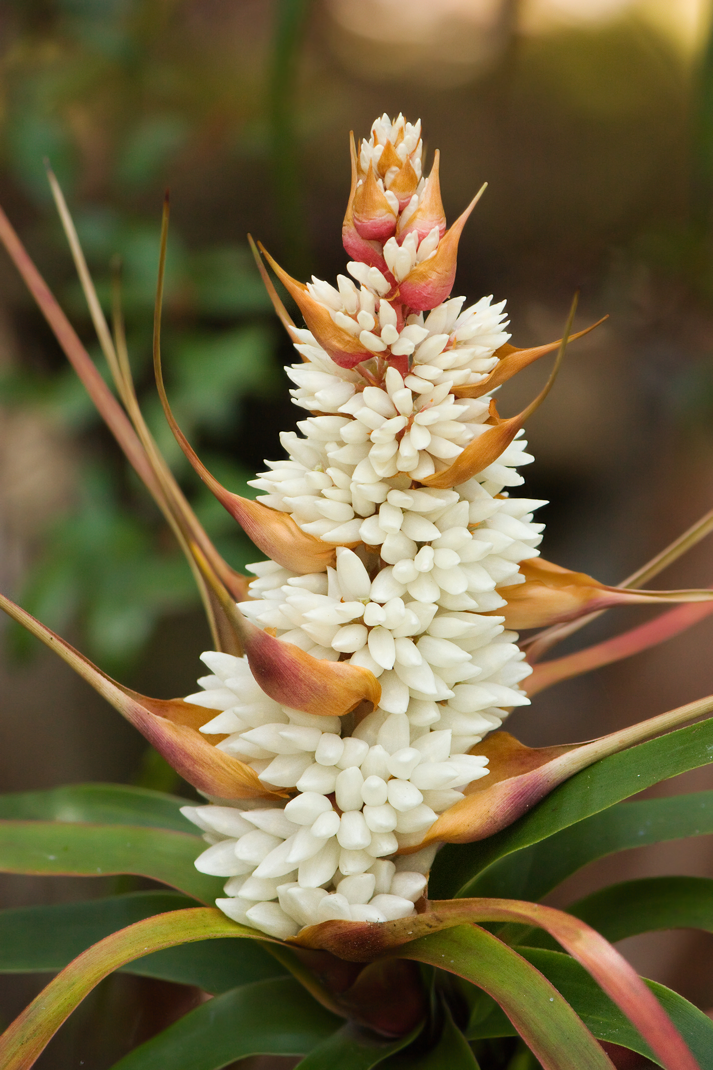 Richea Dracophylla, Myrtle Gully, Collinsvale, Tasmania, Australia